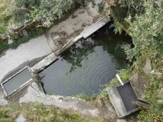 O Reboledo (Ourense)